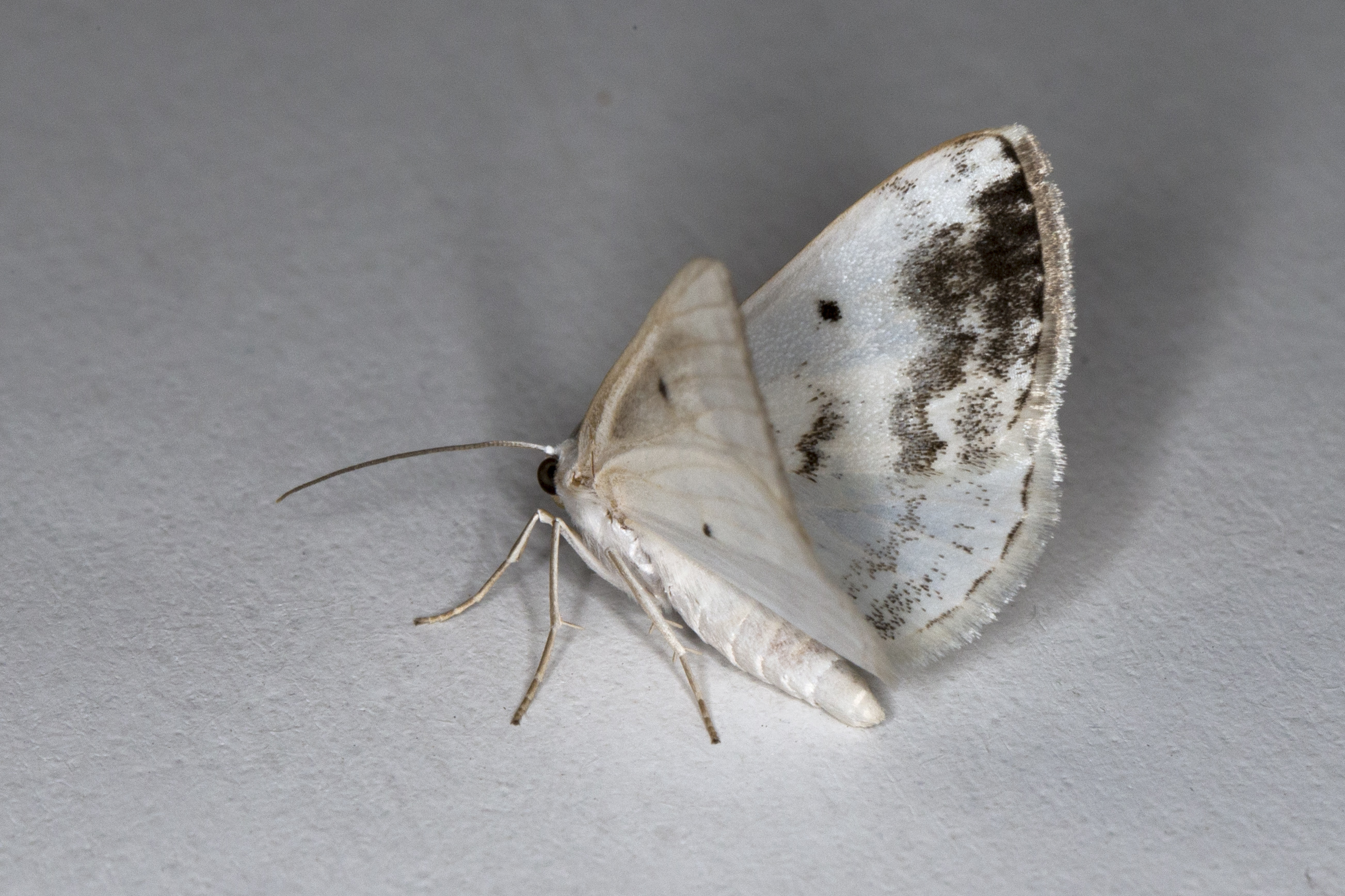 Clouded Silver (Lomographa temerata), Lodz (Poland)